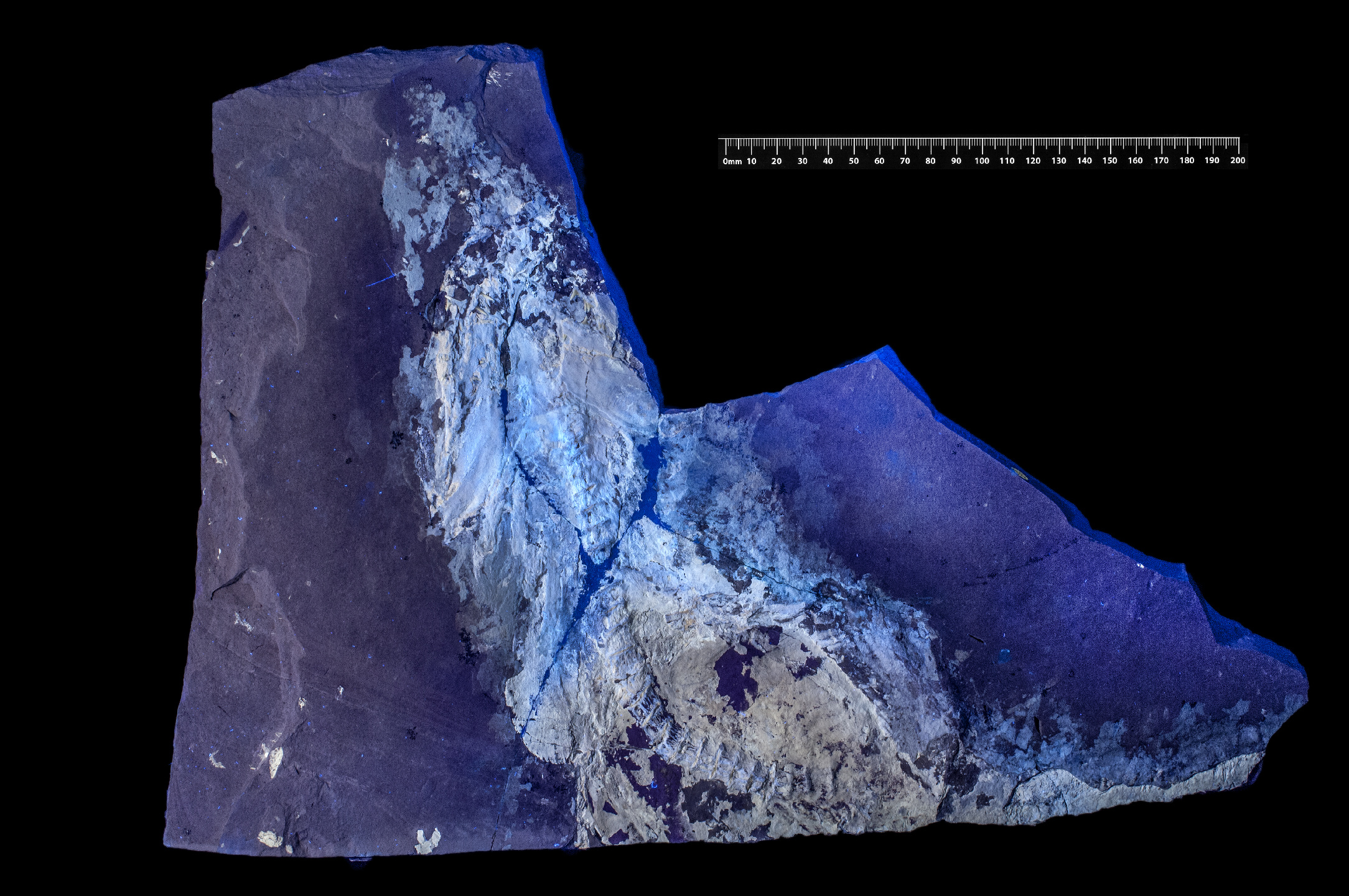 NHMUK PV P 75110. Near-complete fossil of an extinct goblin shark (Scapanorhynchus lewisi) from the Sannine Limestone in Lebanon.